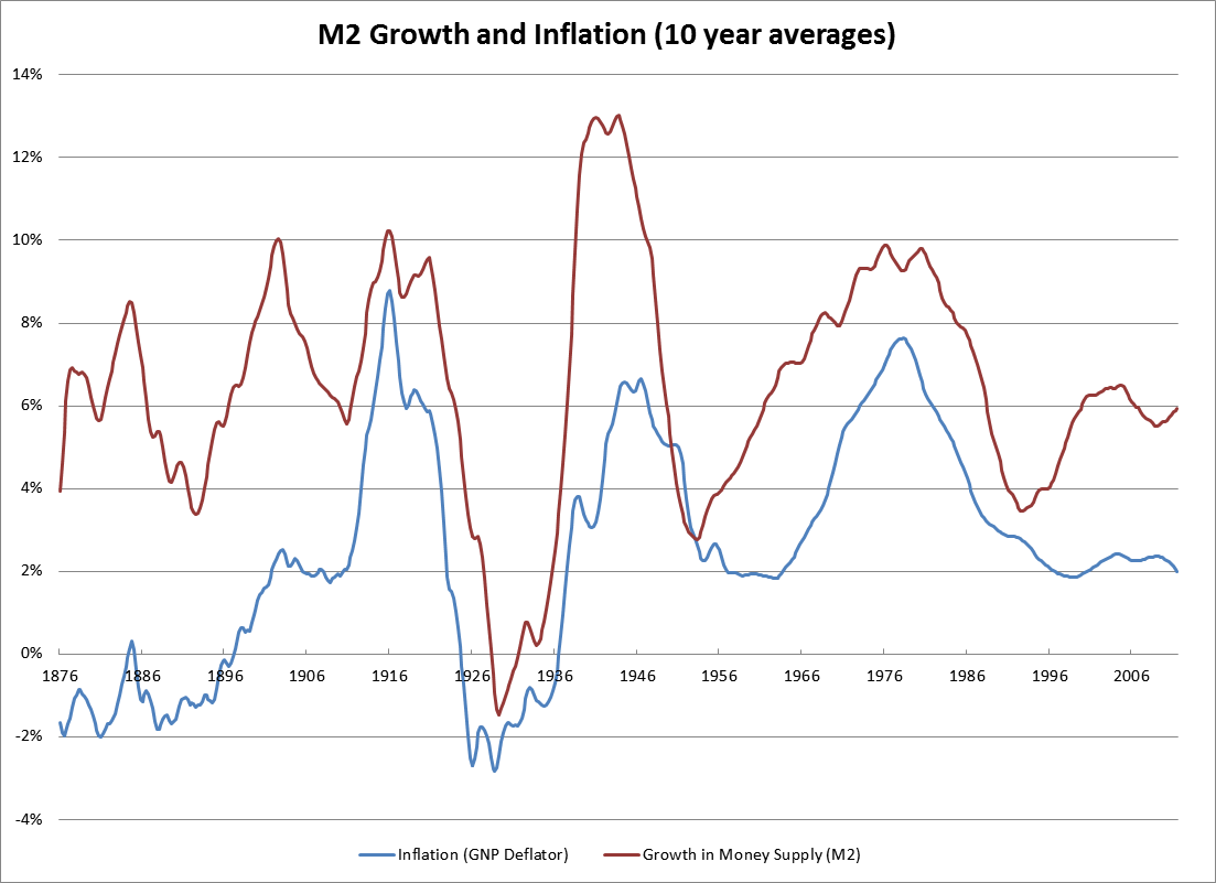 Chart of M2 money supply growth and inflation as measured by the GNP price deflator. Data from 1875 to 1959 are taken from Appendix B of The American Business Cycle: Continuity and Change (edited by Robert Gordon). Data available here: Data from 1959 onward are taken from the Fred database. Series IDs GNPDEF and MSNS. See for similar charts: and